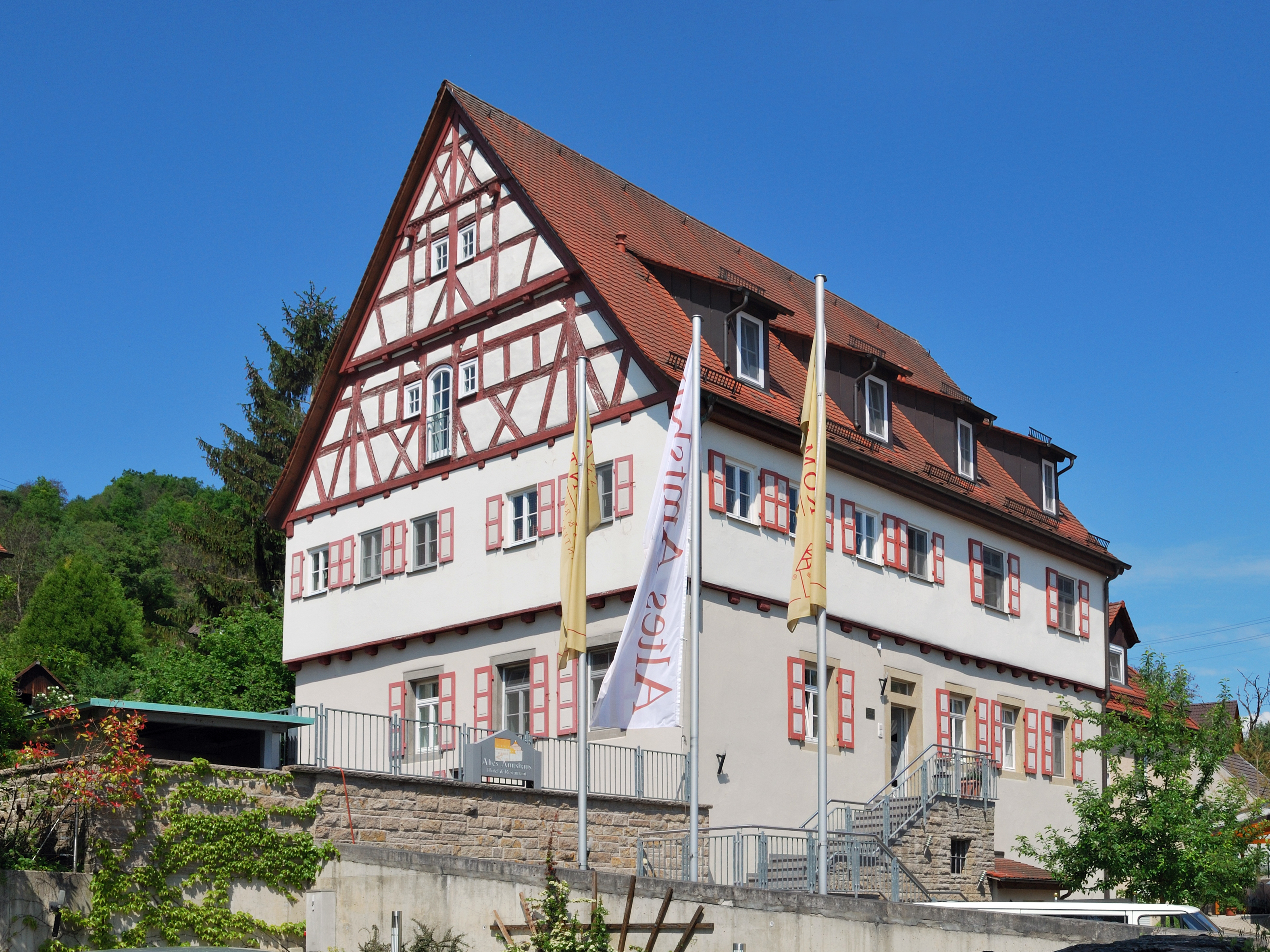 A former administrative building in Ailringen in Southern Germany. After a reconstruction in 1994 to 1997 it serves today as a hotel and a restaurant.